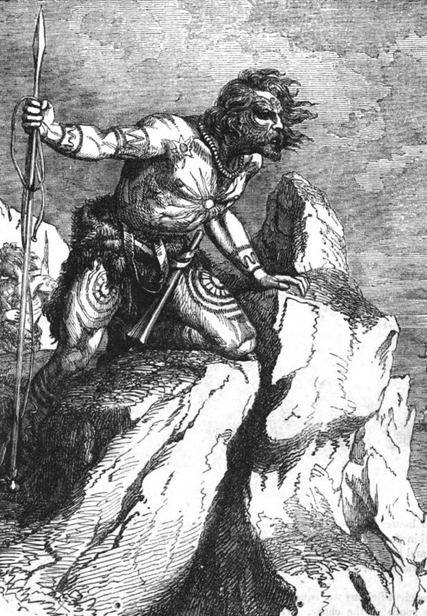 Pict (or Caledonian), who lived in northeastern Scotland in Late Iron Age / Early Mediaeval times. As represented in a 19th century book.